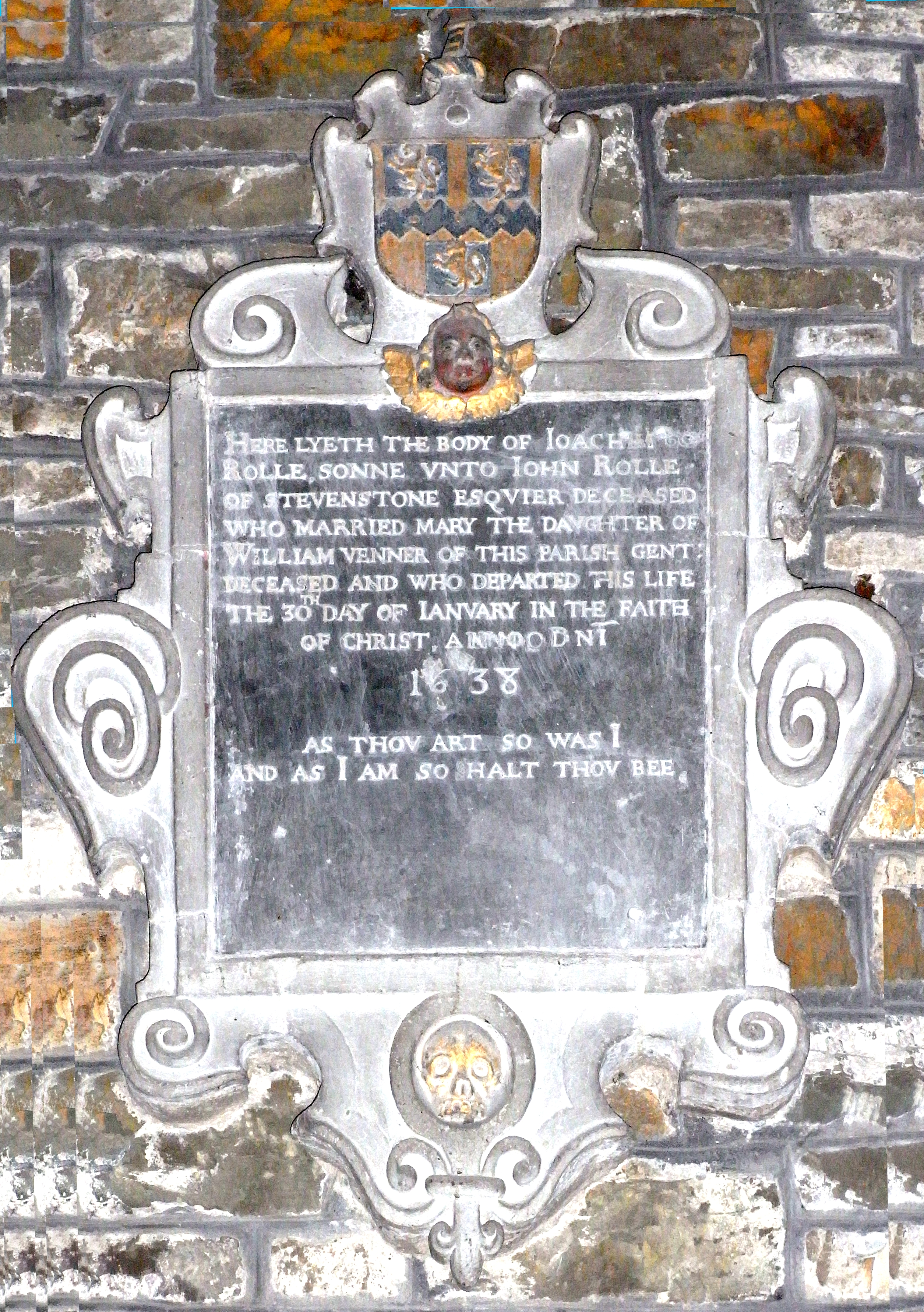 Mural monument to Joachim Rolle (d.1638), Chittlehampton Church, Devon. Inscription: "Here lyeth the body of Joachim Rolle sonne unto John Rolle of Stevenstone, Esquier, deceased, who married Mary the daughter of William Venner of this parish, gent, deceased, and who departed this life the 30th day of January in the faith of Christ Anno D(omi)ni 1638. As thou art so was I; And as I am so shalt thou be". The Venner family was seated at Hudscott, Chittlehampton. Above are shown the arms and crest of Rolle.